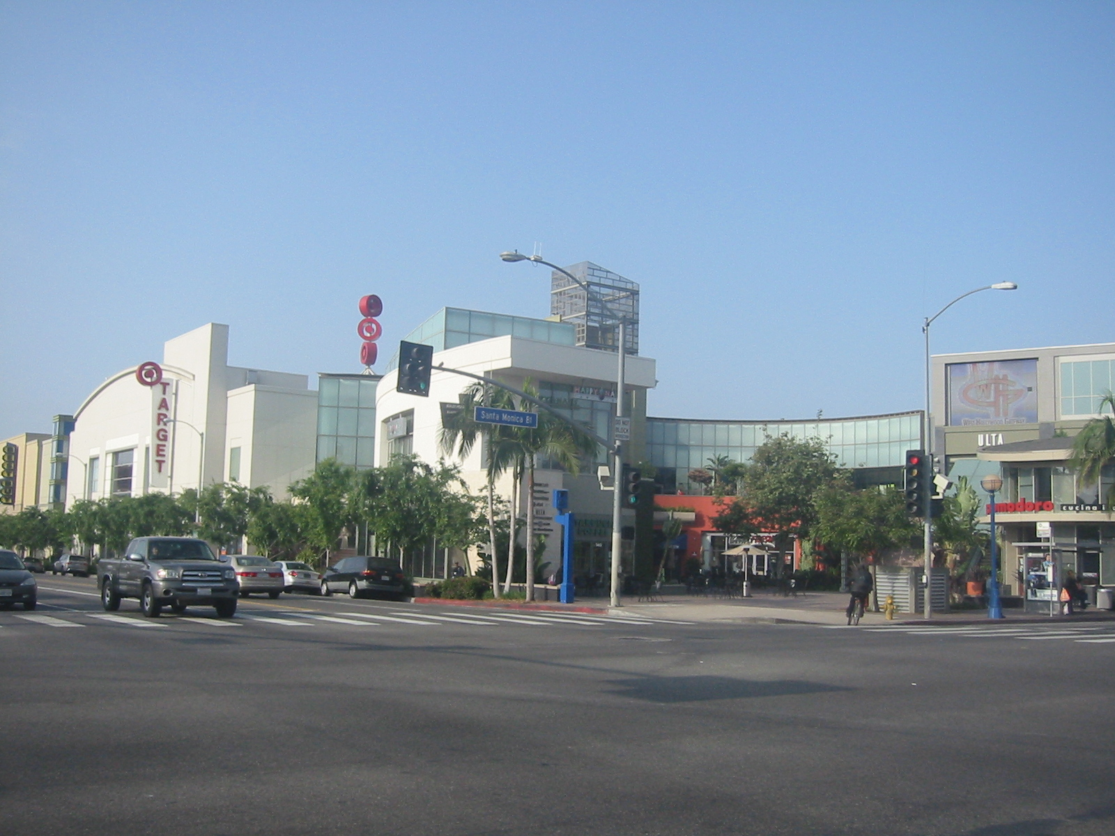 West Hollywood Gateway shopping mall in West Hollywood, California